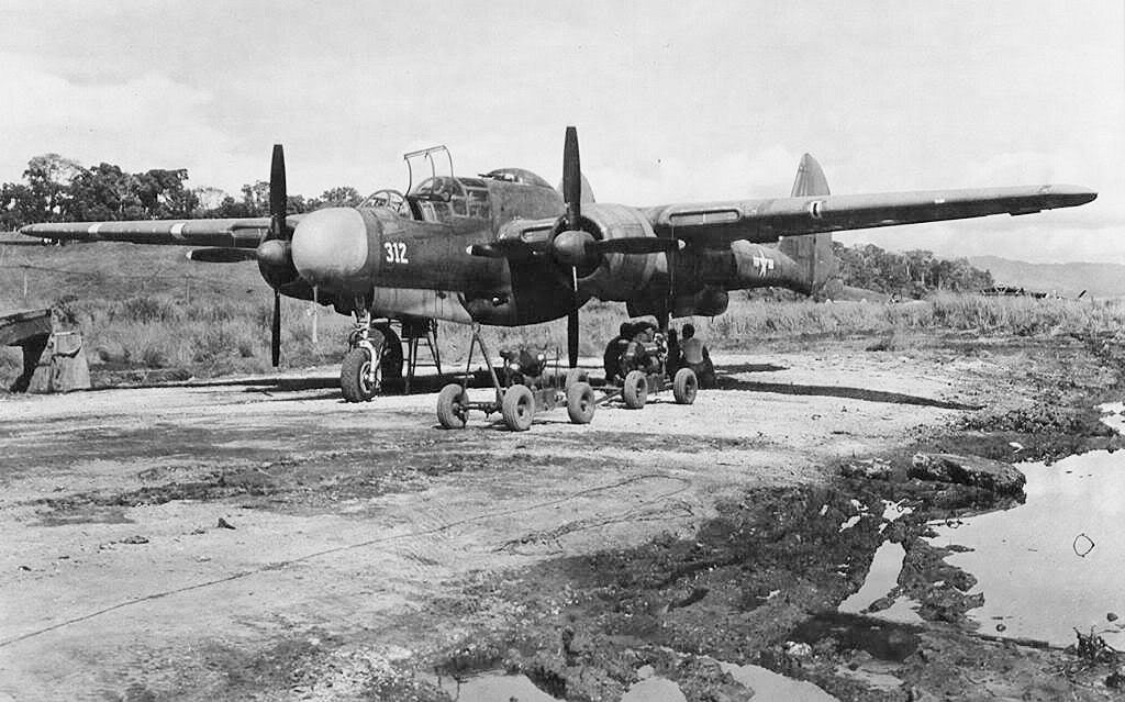 6th Night Fighter Squadron P-61 Black Widow